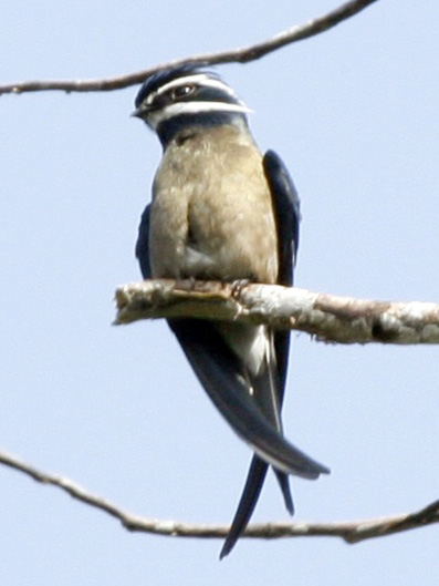 Whiskered Treeswift - female Hemiprocne comata comata Panti Forest, Johor, Malaysia 11th. March 2007